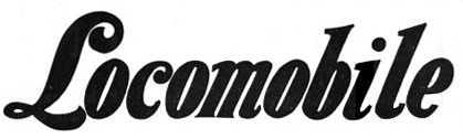 The Locomobile Company of America - Bridgeport, Connecticut - 1905, logo